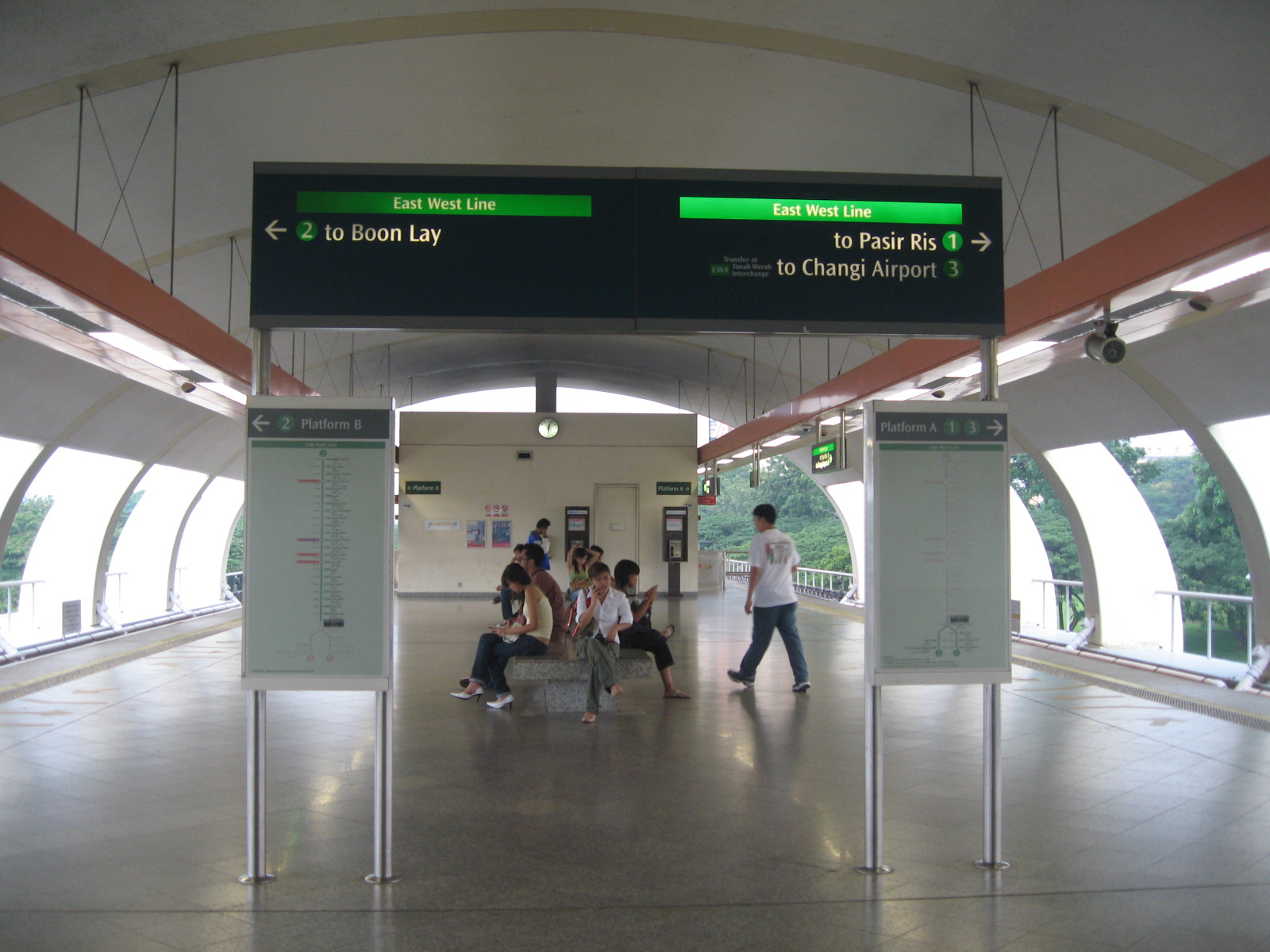 Bedok MRT Station.